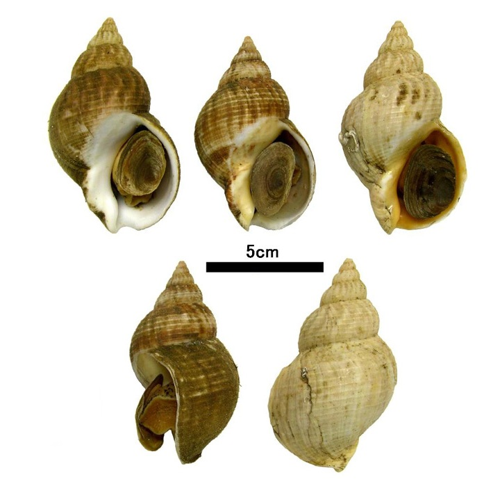 Common whelks (Buccinum undatum) sold at a fishmarket in Tokyo, Japan -- said to be imported from England. ja: 英国からの輸入品というヨーロッパエゾバイ（エゾバイ科）。